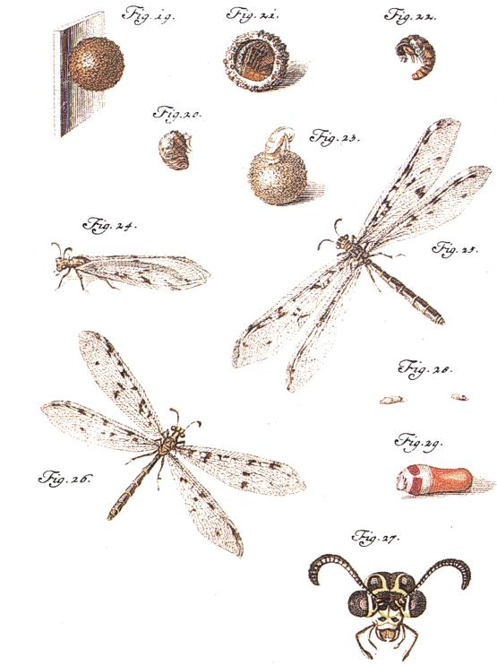 Antlion - Plate from "Insecten-Belustigung" by Roesel von Rosenhof